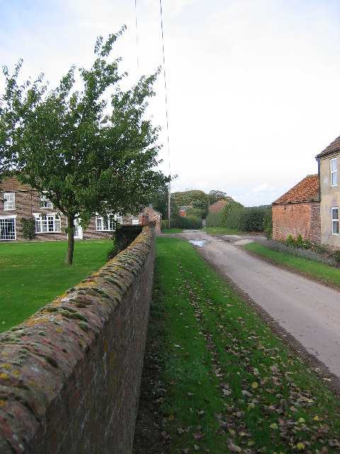 Dunnington, East Riding of Yorkshire, England.View north to the few houses that make up Dunnington, set within farmland.